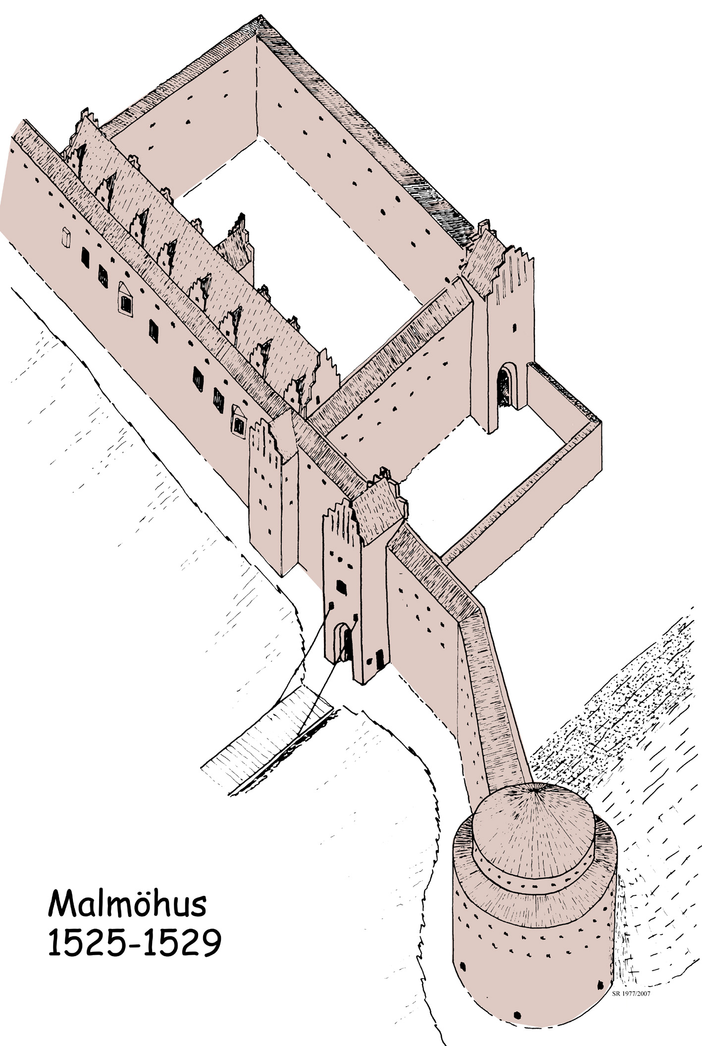 The castle of Malmöhus, Malmö; Sweden. Reconstruction made by Sven Rosborn 1977.